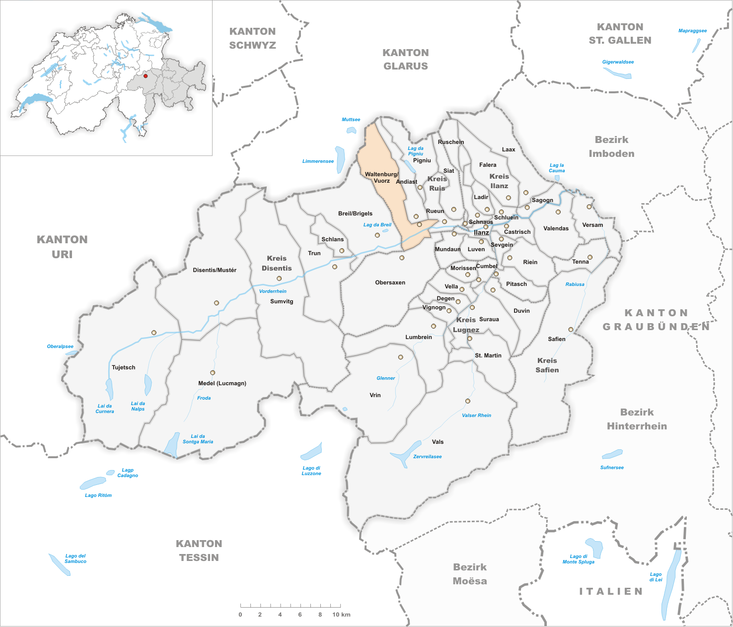 Municipality Waltensburg/Vuorz